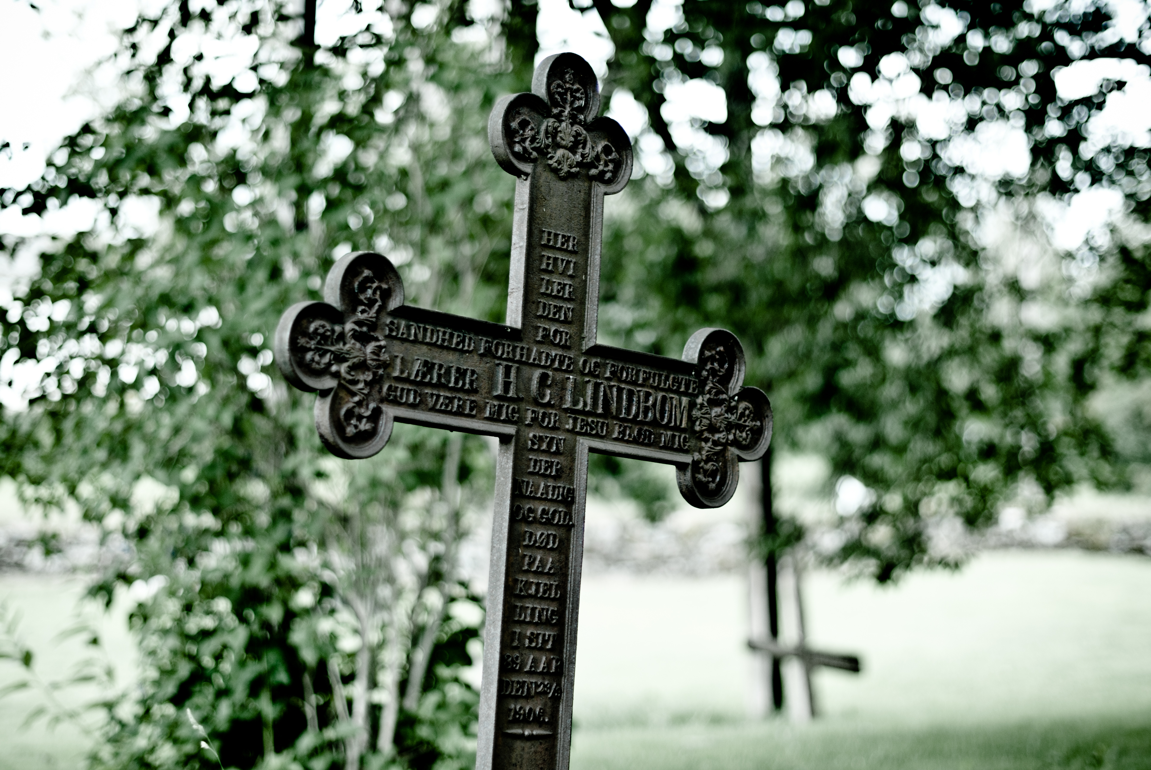 Gildeskål Church site